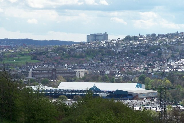 Owls' Home, Hillsborough, Sheffield. A superb view from Midhurst Road, Birley Carr ... with the three most prominent features being ... Sheffield Wednesday's Hillsborough Football Ground at the front, Regent Court Flats in the middle and the Royal Hallamshire Hospital dominating the skyline. 760265 726982 1658491